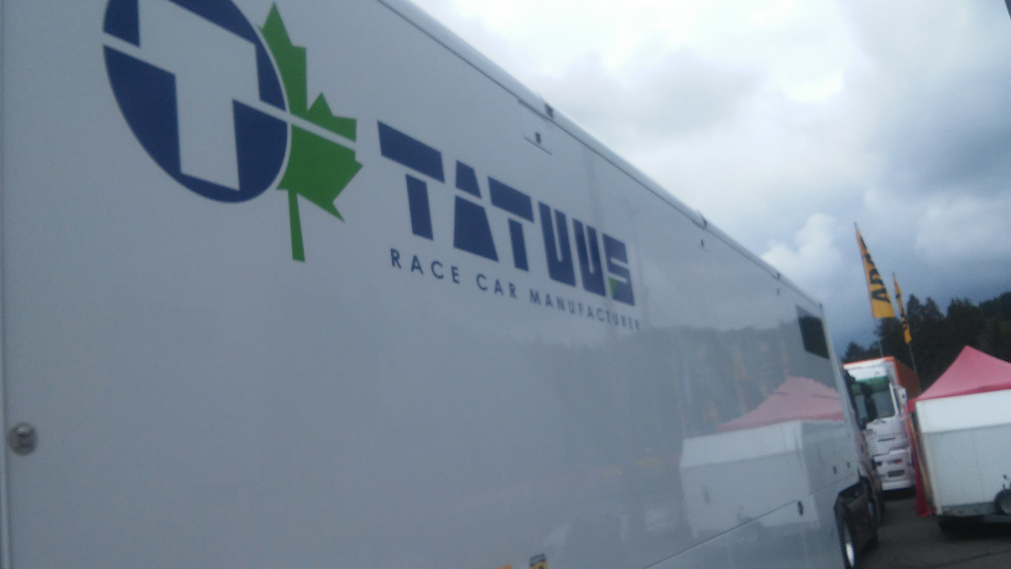 A Tatuus support truck at Spa-Francorchamps. The truck provided spare parts for the ADAC Formel 4.